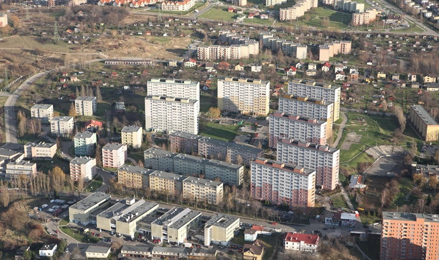 Aerial photography of Złote Łany housing estate, part of Złote Łany - district of Bielsko-Biała, Poland.